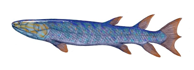 Eusthenopteron foordi, a lobe-finned fish from the Late Devonian of Canada, pencil drawing